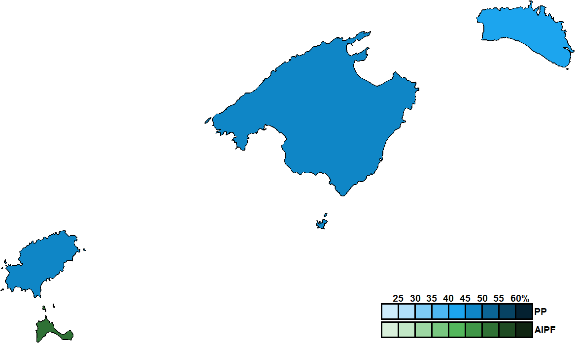 District results for the 2007 Balearic regional election.